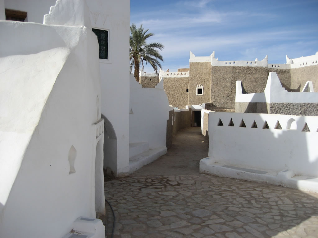 A small square in the old city of Ghadames.